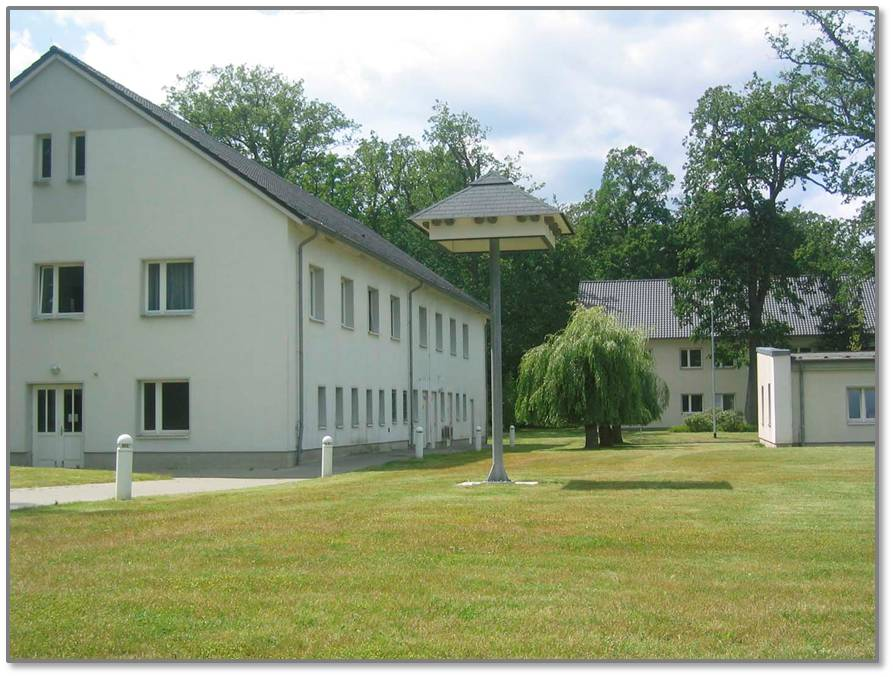 The House Martin, a protected migratory bird, is living in stairwells at Wetzel Kaserne in Baumholder, which are scheduled to be replaced by 38 new townhouse-style units as part of an $18 million townhouse project. In response, a new community of bird houses will be constructed to accommodate the bird. (U.S. Army Corps of Engineers photo)